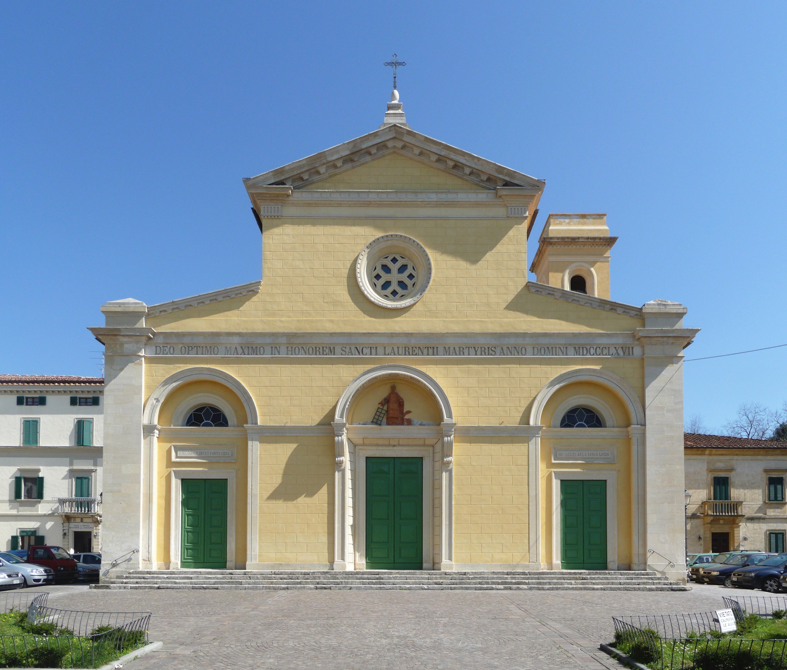 Church "Chiesa di San Lorenzo", Fauglia, Province Pisa, Italy